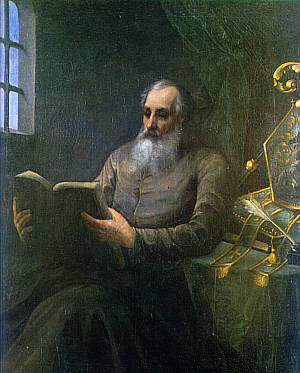 A picture with Isaac of Armenia (354-439)